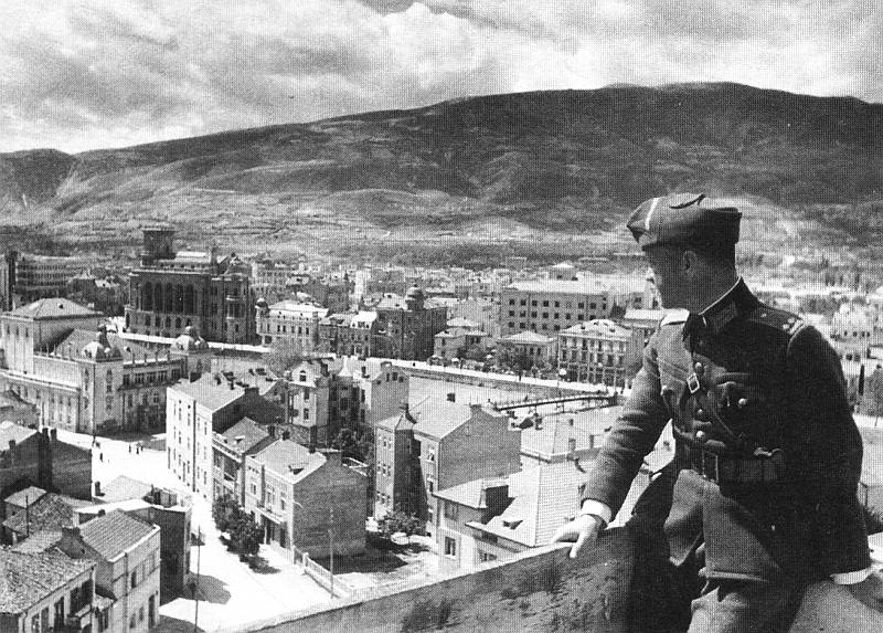 Bulgarian officer from Macedonia Sotir Nanev in Skopje.